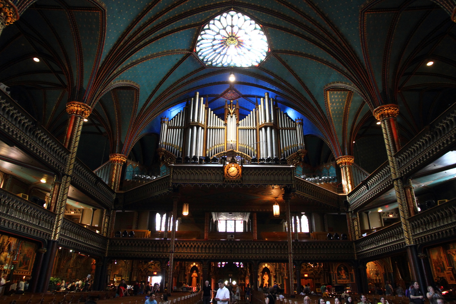 Inside of Notre-Dame Basilica (Montreal) viewing the pipes.